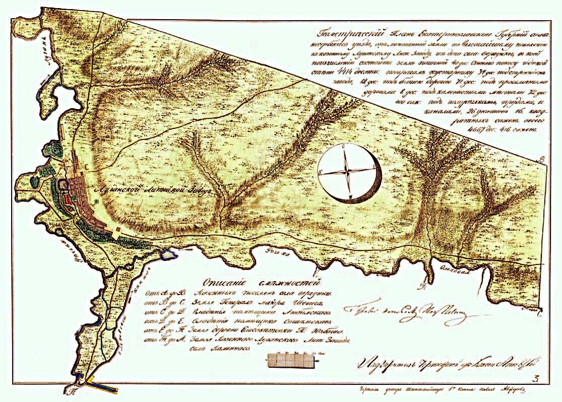 The map of the lang belonged to Lugansk foundry.